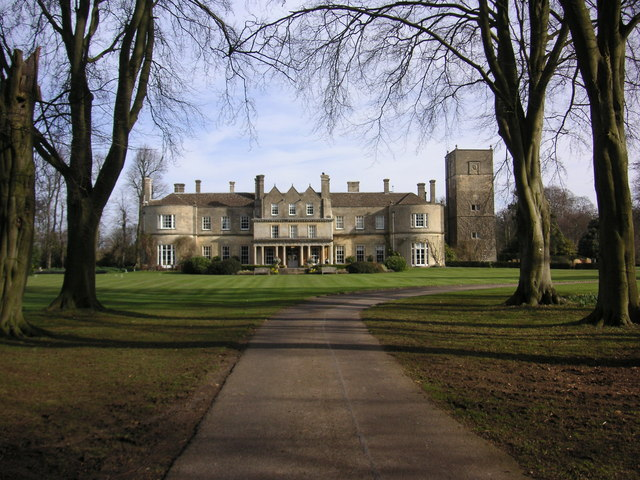 Front view of Lucknam Park Hotel, at the top of the drive